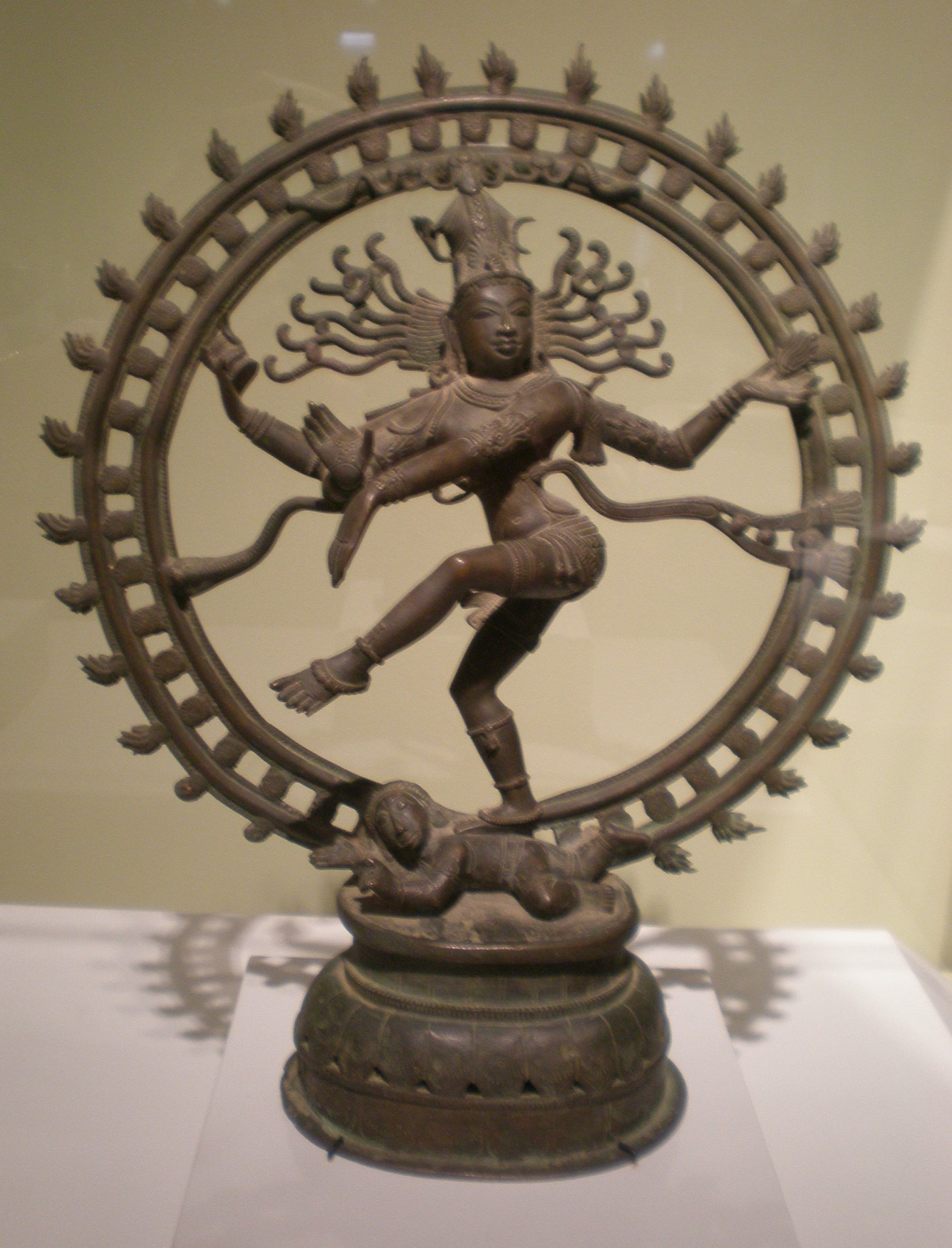 Bronze Shiva as lord of the dance (ca. 1900) on display at the Iris & B. Gerald Cantor Center for Visual Arts on the Stanford University campus in Stanford, California.